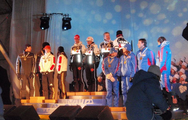 Medal cermony Biathlon WC 2008 Ostersund 1 Germany 2 Belarus 3 Russia